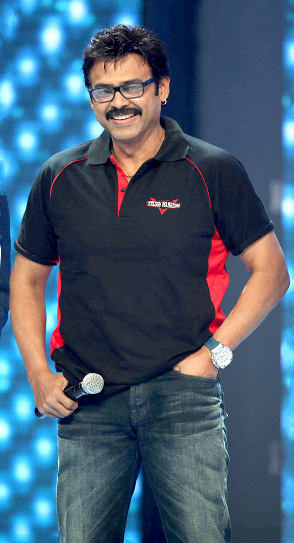 Venkatesh Opening ceremony of Celebrity Cricket League - Season 3